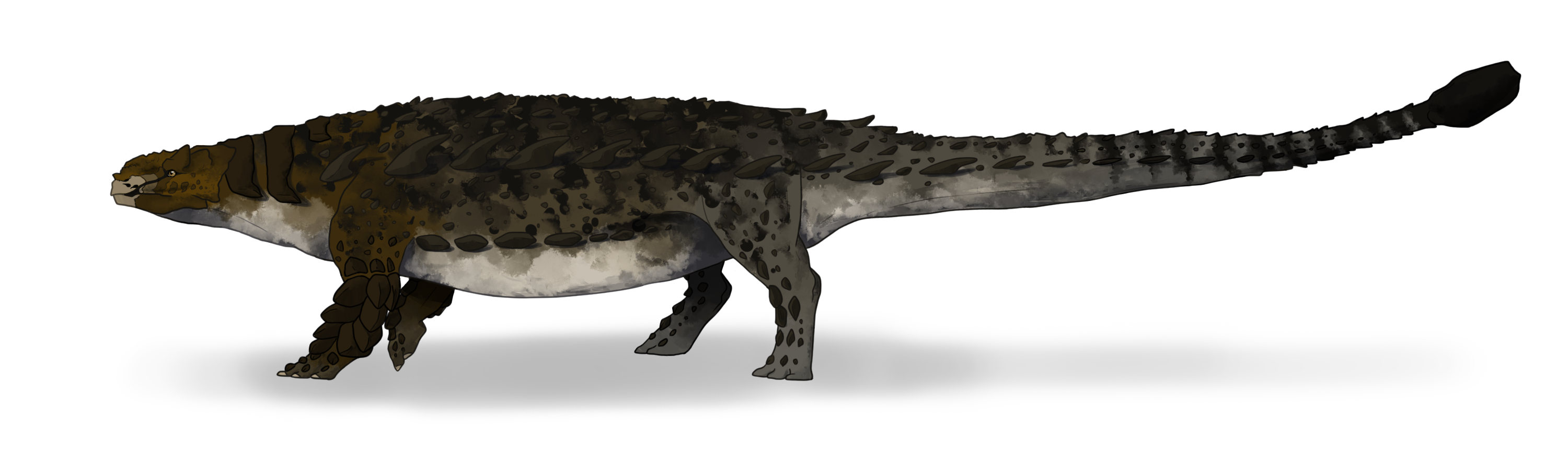 A restoration of Pinacosaurus grangeri based on the armor of specimen MPC 100/1305 and various skeletal and fossil mounts.